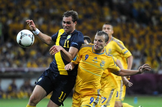 UEFA Euro 2012 match between Ukraine and Sweden that took place in Kiev. Final result was 2:1 (2xShevchenko - Ibrahimović)